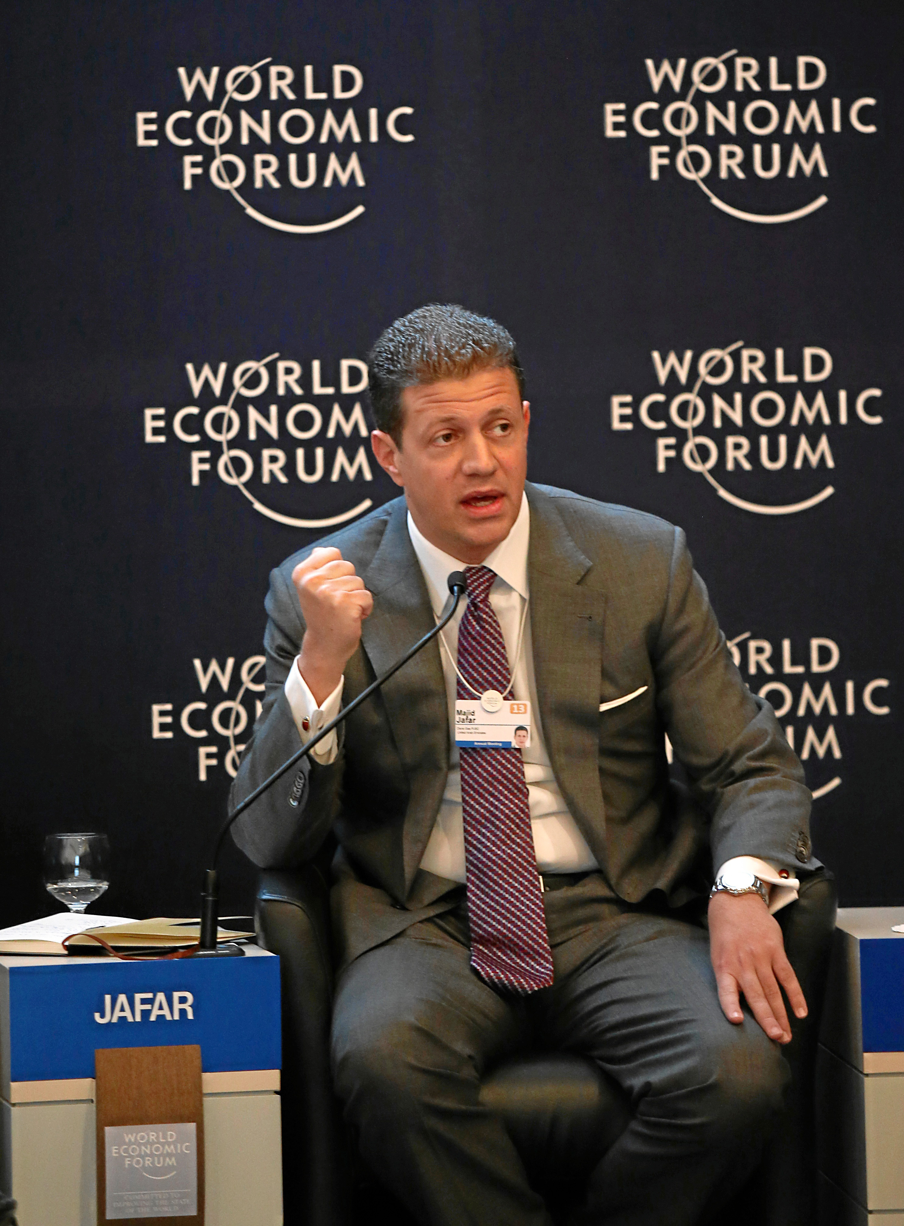 Majid Jafar addressing the Davos Annual Meeting of the World Economic Forum